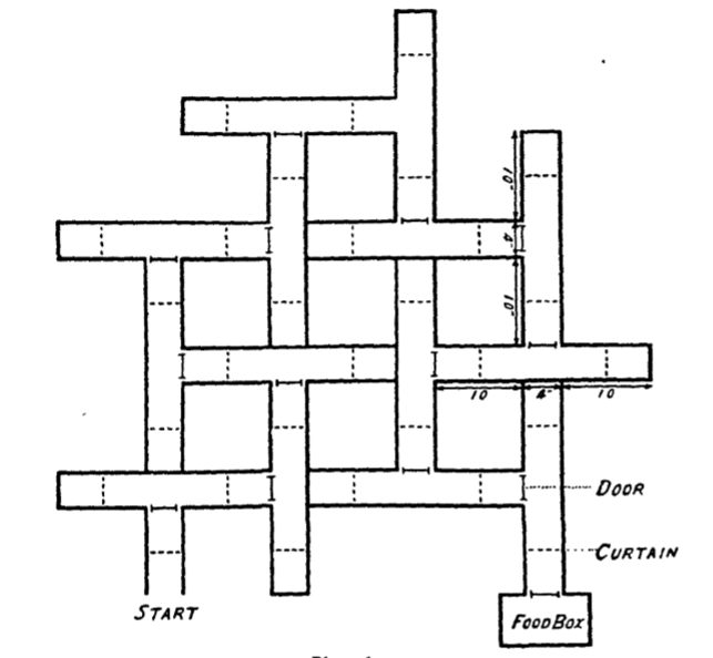 Image shows a type of labyrinth psychologist Tolman used for his experiments of cognitive maps in rats and men.